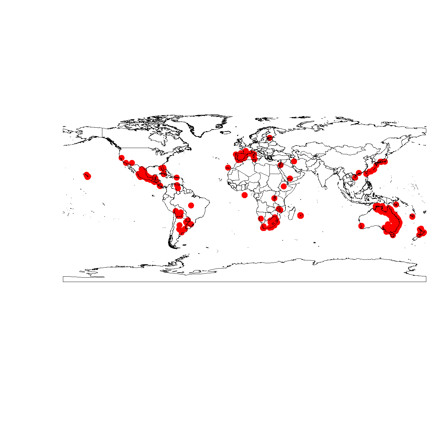 Casuarina cunninghamiana occurrence data downloaded from GBIF (5637 records)